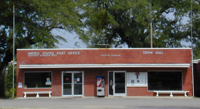 post office and town hall in Lockhart, Alabama, United States, Sunday, June 30, en:2002. Taken by ke4roh (talk).